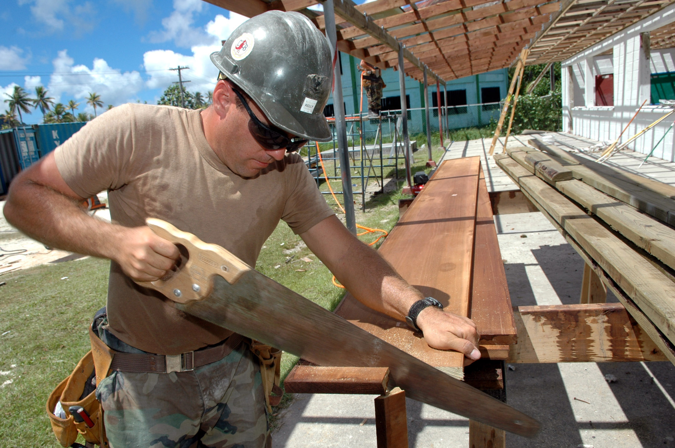 CHUUK, Federated States of Micronesia (Aug. 23, 2008) Builder 2nd Class Gabriel Kelley, assigned to Navy Mobile Construction Battalion (NMCB) 133, cuts wood planks for the reconstruction of Mwan Elementary School during a Pacific Partnership engineering civic action program. NMCB-133 is embarked aboard the Military Sealift Command hospital ship USNS Mercy (T-AH 19), the primary platform for Pacific Partnership. The four-month humanitarian mission for Pacific Partnership is to provide engineering, civic, medical and dental assistance to Southeast Asia and Oceania. (U.S. Navy photo by Mass Communication Specialist 2nd Class James Seward/Released)